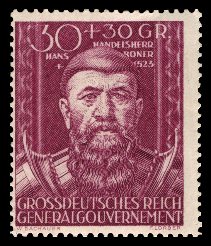 VIPs of culture II Ausgabepreis: 30+30 Groschen First Day of Issue / Erstausgabetag: 15. Juli 1944 Michel-Katalog-Nr: 122 (Generalgouvernement)